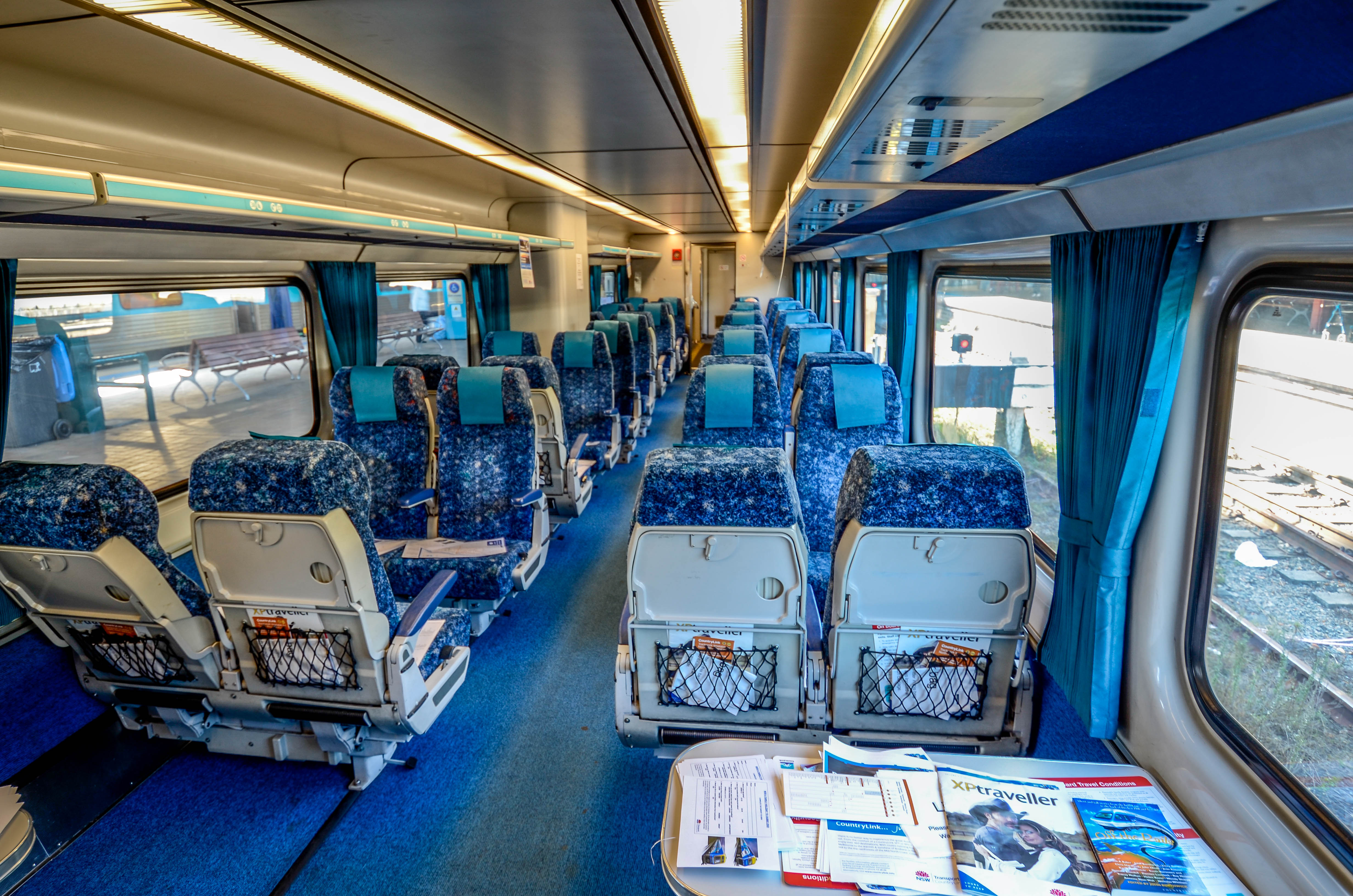 NSW TrainLink Xplorer First Class